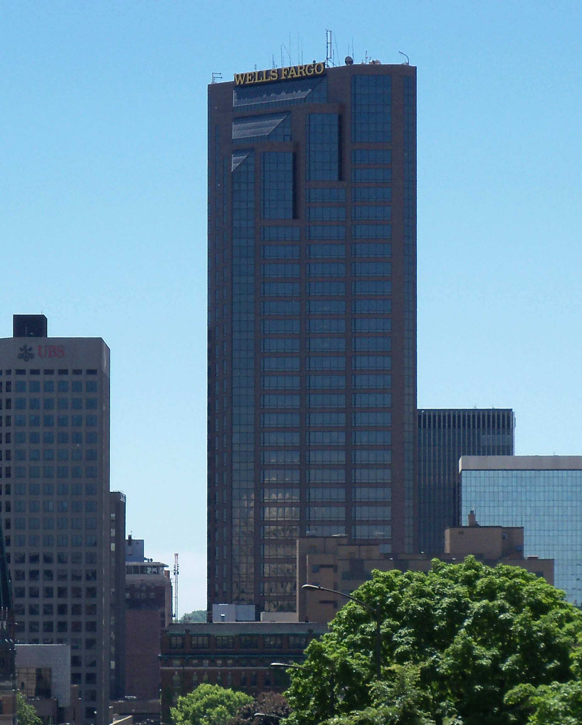 Wells Fargo Place in St. Paul, Minnesota, USA. - Houses the headquarters of the Minnesota State Colleges and Universities System